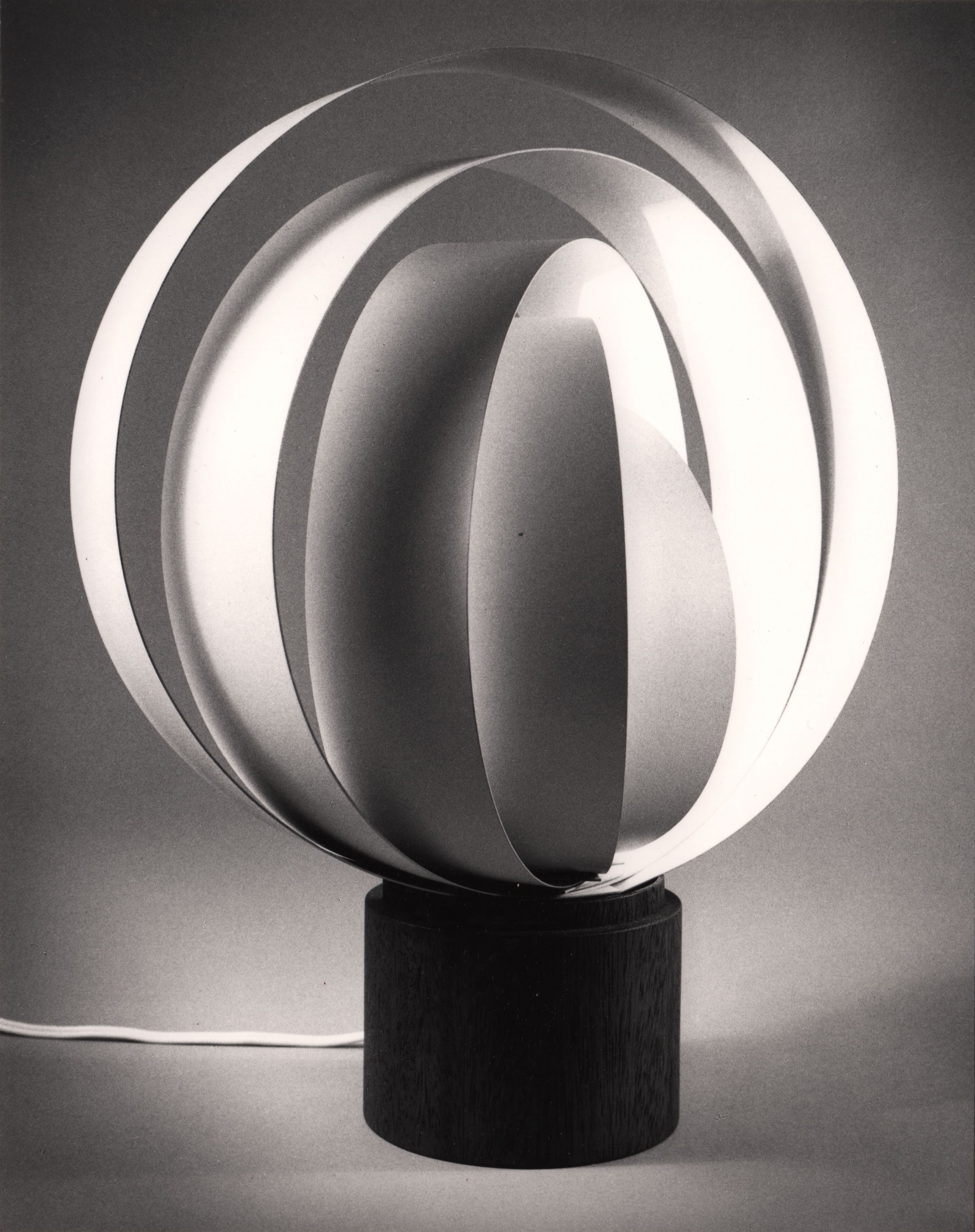 The lamp designed by Gojko Varda for the Copper and Aluminium Mill SEVOJNO-Užice, between 1960 and 1970